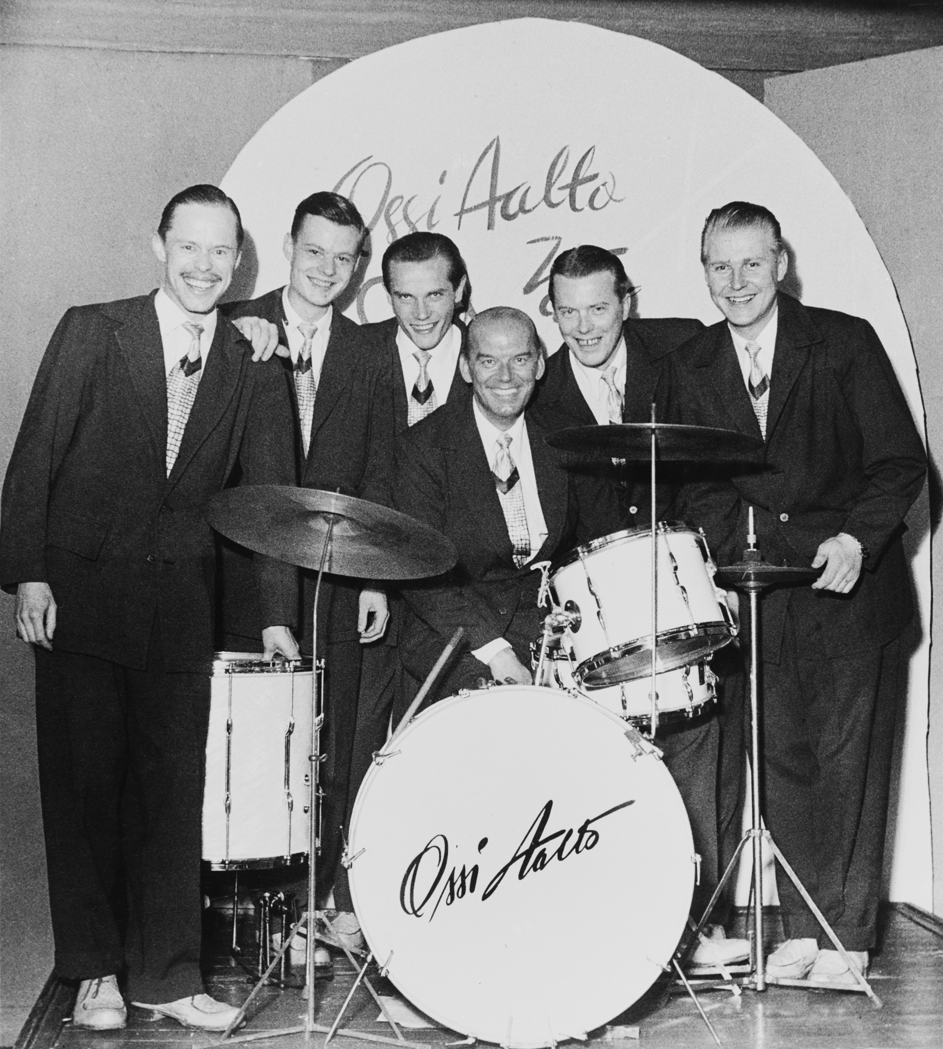 Photograph of Ossi Aalto Sextet: Sacy Sand (b), Seppo Pohjola (sax), Antti Pirtinheimo (ts), Ossi Aalto (dr), Veikko Tanninen (p), Rolf Kronqvist (tr).